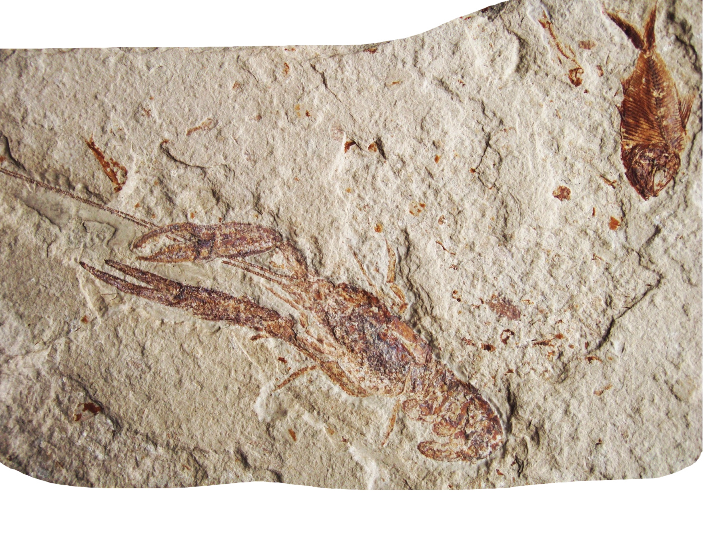 Fossil Shrimp and fishes (cretaceous) was found in Lebanon